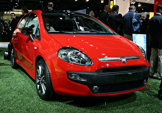 Fiat Punto Evo